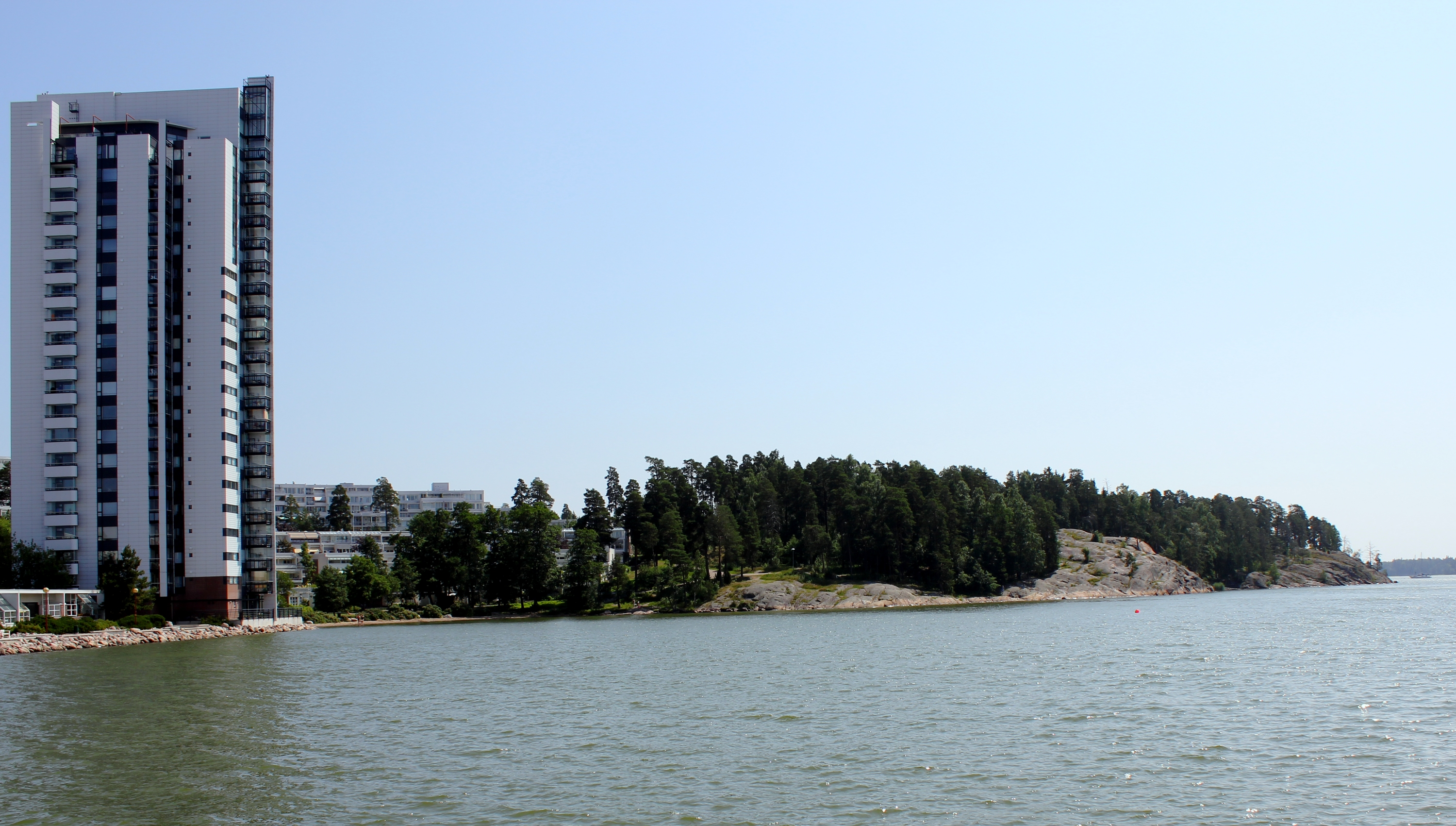 High rise apartment building in Kivenlahti, Espoo, Finland. Gulf of Finland, rocks, pines, sky.